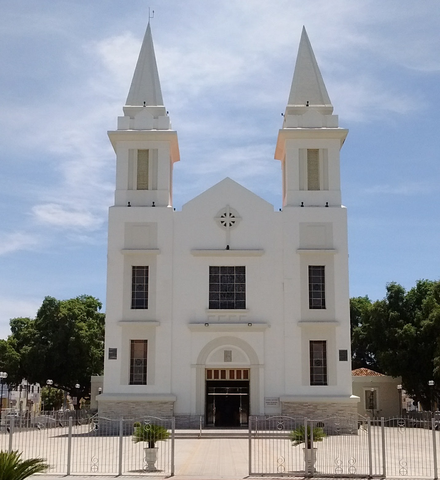 Cathedral of the Diocese of Juazeiro, Bahia, Brazil